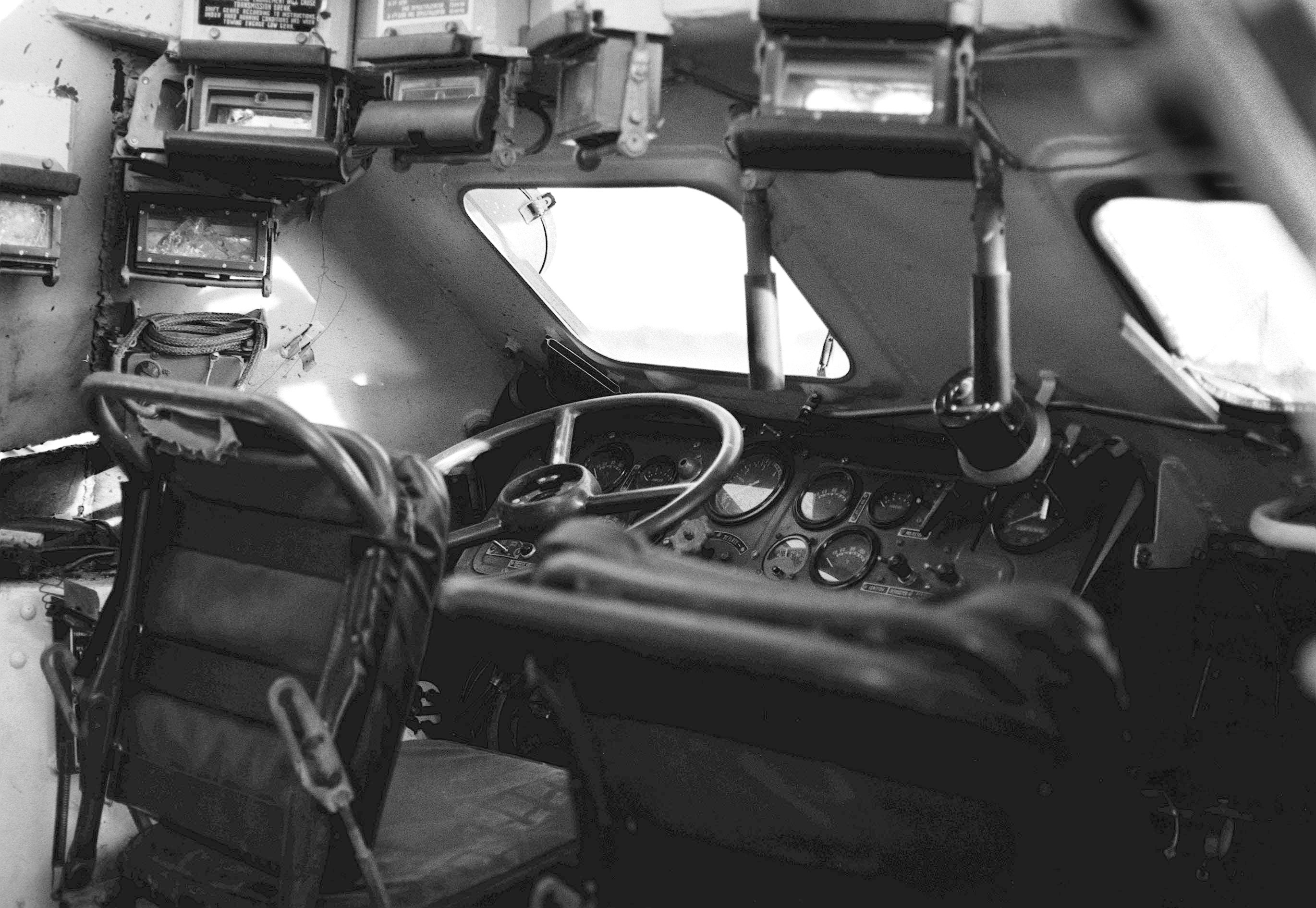 The interior of a Soviet-made BTR-60B armored personnel carrier.